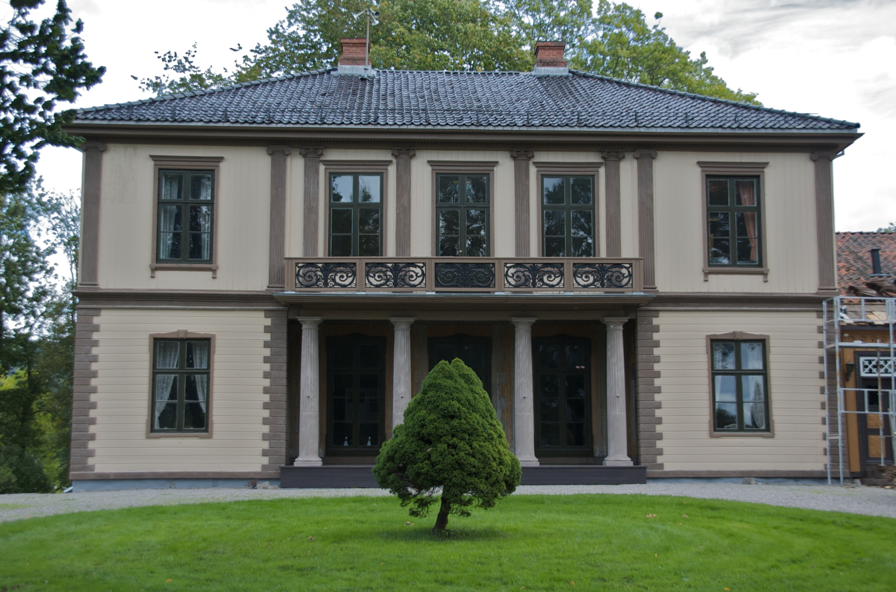 Frogner hovedgård in Skien, Norway, main building